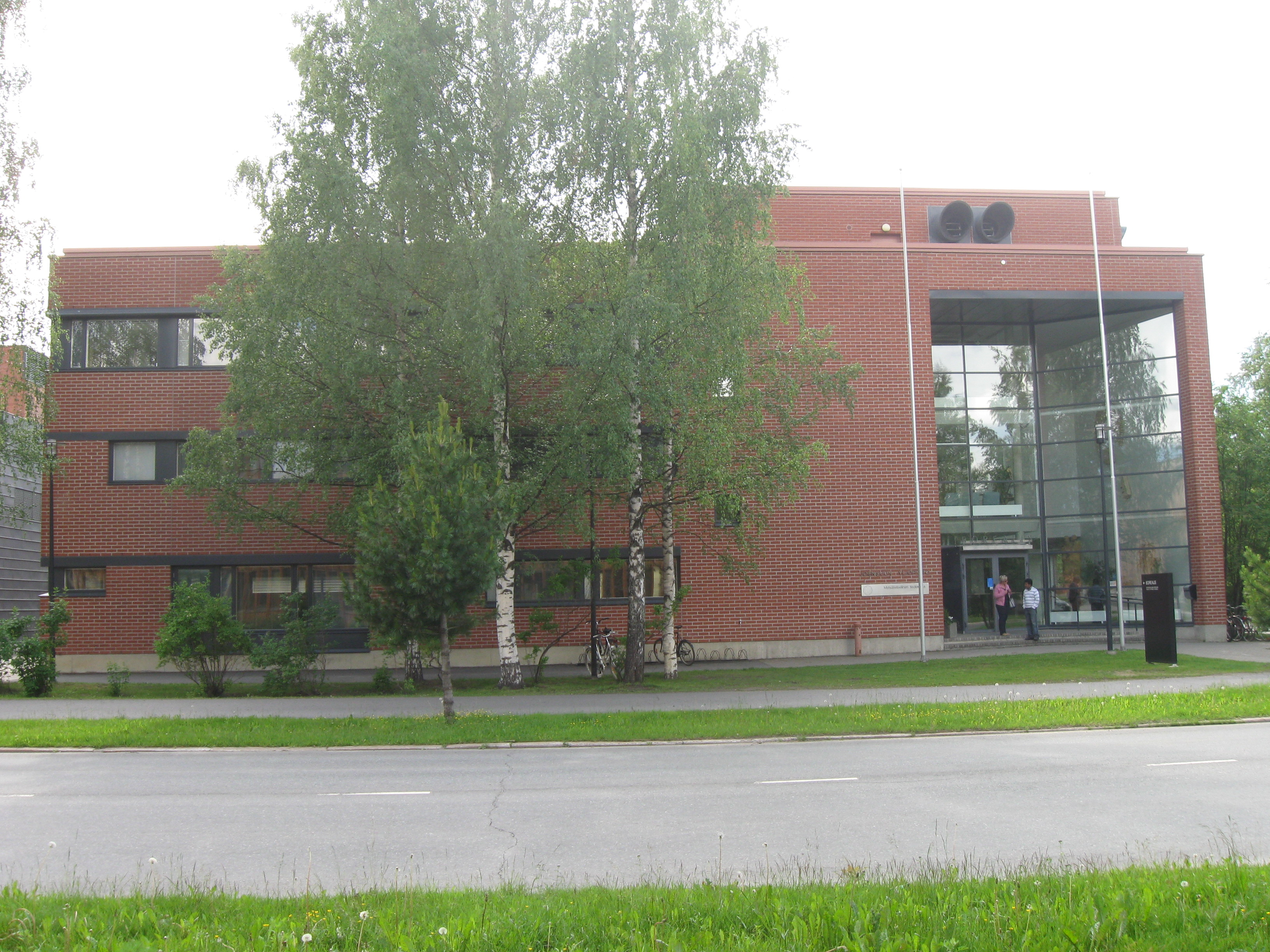 University of Joensuu's Borealis building.